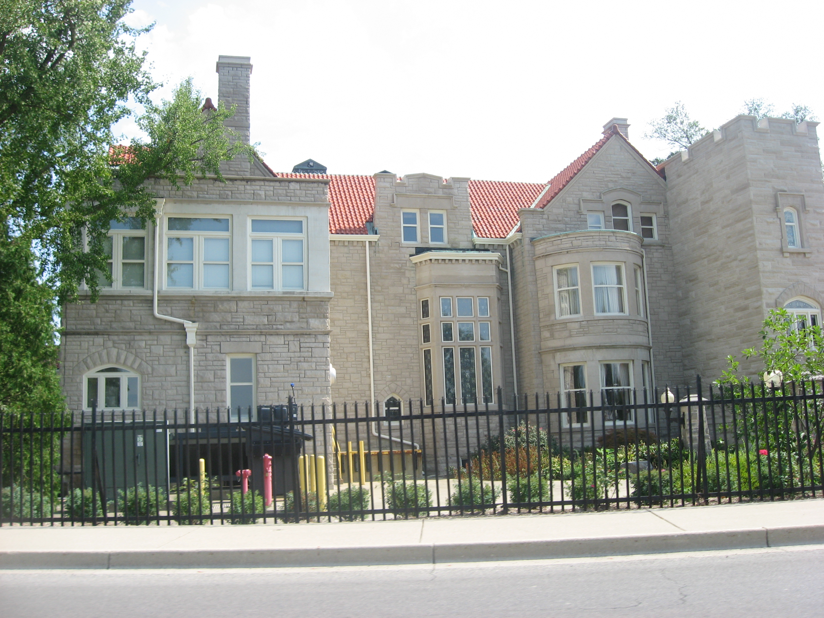 Front of the Edmund B. and Bertha Ball House, located at 400 Minnetrista Boulevard in Muncie, Indiana, United States. Built in 1907, it is part of the Minnetrista Boulevard Historic District, a historic district that is listed on the National Register of Historic Places.